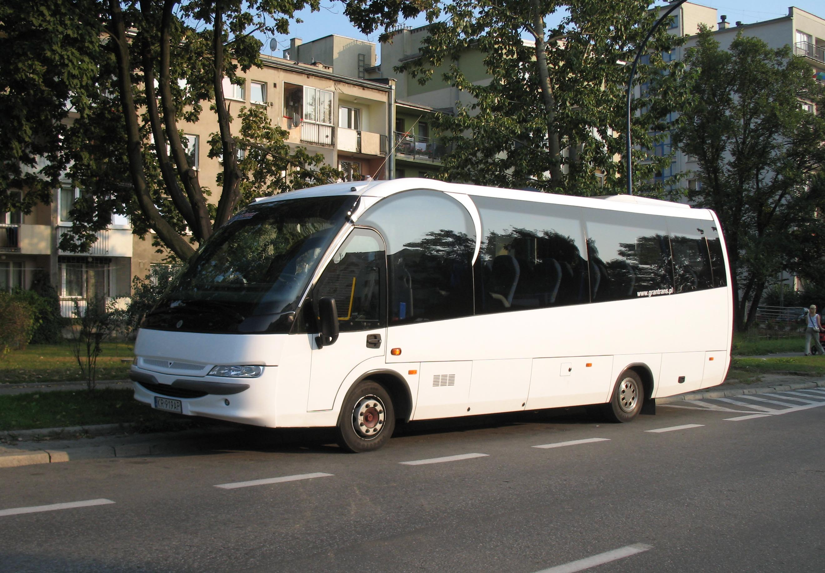 Indcar Mago 2 bus on Iveco chassis in Kraków, Poland. Grantrans company from Kraków.